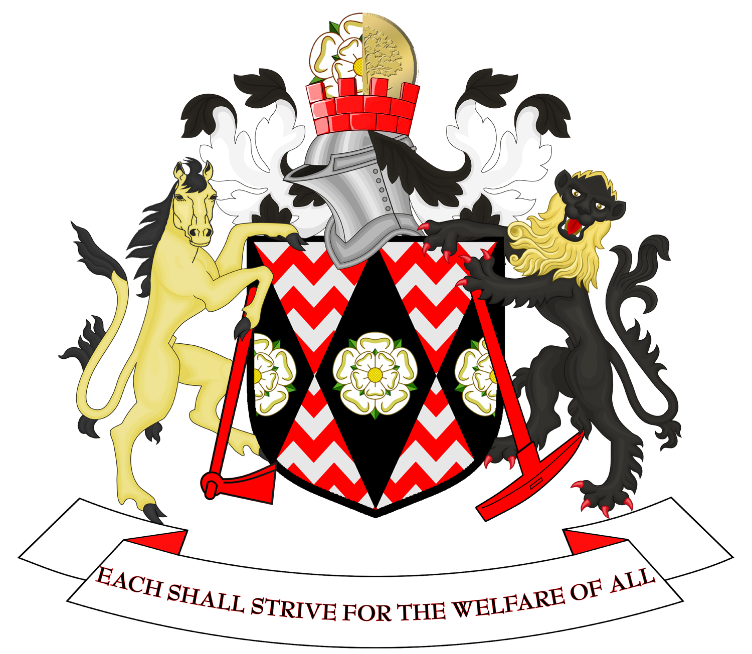 The Coat of arms of South Yorkshire County Council, the top-tier authority for the metropolitan county of South Yorkshire between 1974 and 1986. The blazon is:ARMS: Sable a pile throughout barry dancetty argent and gules over all a pile reversed throughout counterchanged in the sable a rose argent barbed and seeded proper between two like roses dimidiated and issuing from the flanks.CREST: Issuant from a mural crown gules a rose argent barbed and seeded proper dimidiating a bezant.SUPPORTERS: Dexter a horse guardant Or crined and unguled sable supporting with the dexter forehoof a hoe gules sinister a lion guardant sable maned Or supporting a miner's pick-axe gules.